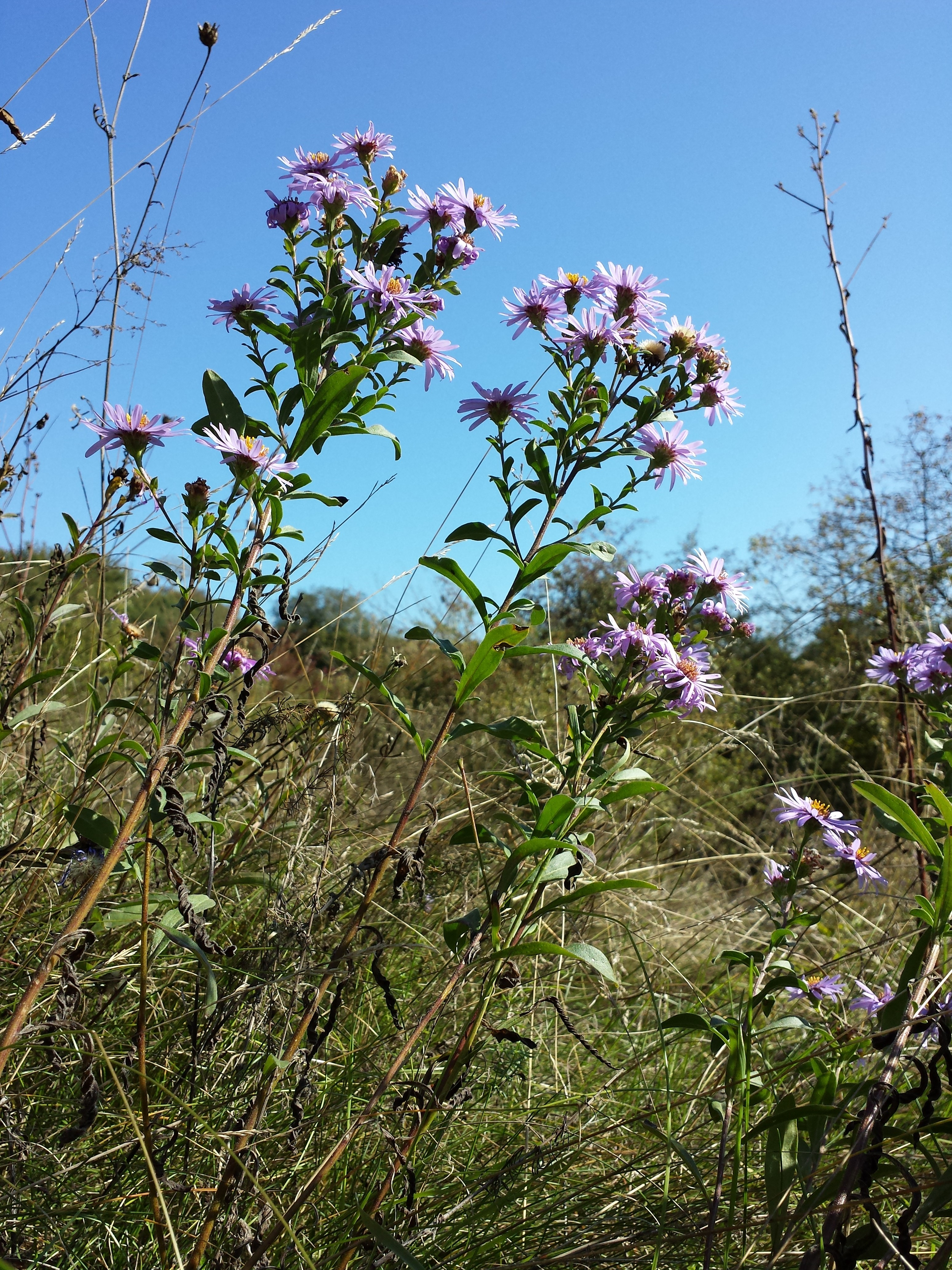 Habitus Taxon: Aster amellus (sensu Fischer et al. EfÖLS 2008) Location: Gebmannsberg, district Korneuburg, Lower Austria - ca. 300 m a.s.l. Habitat: dry grassland